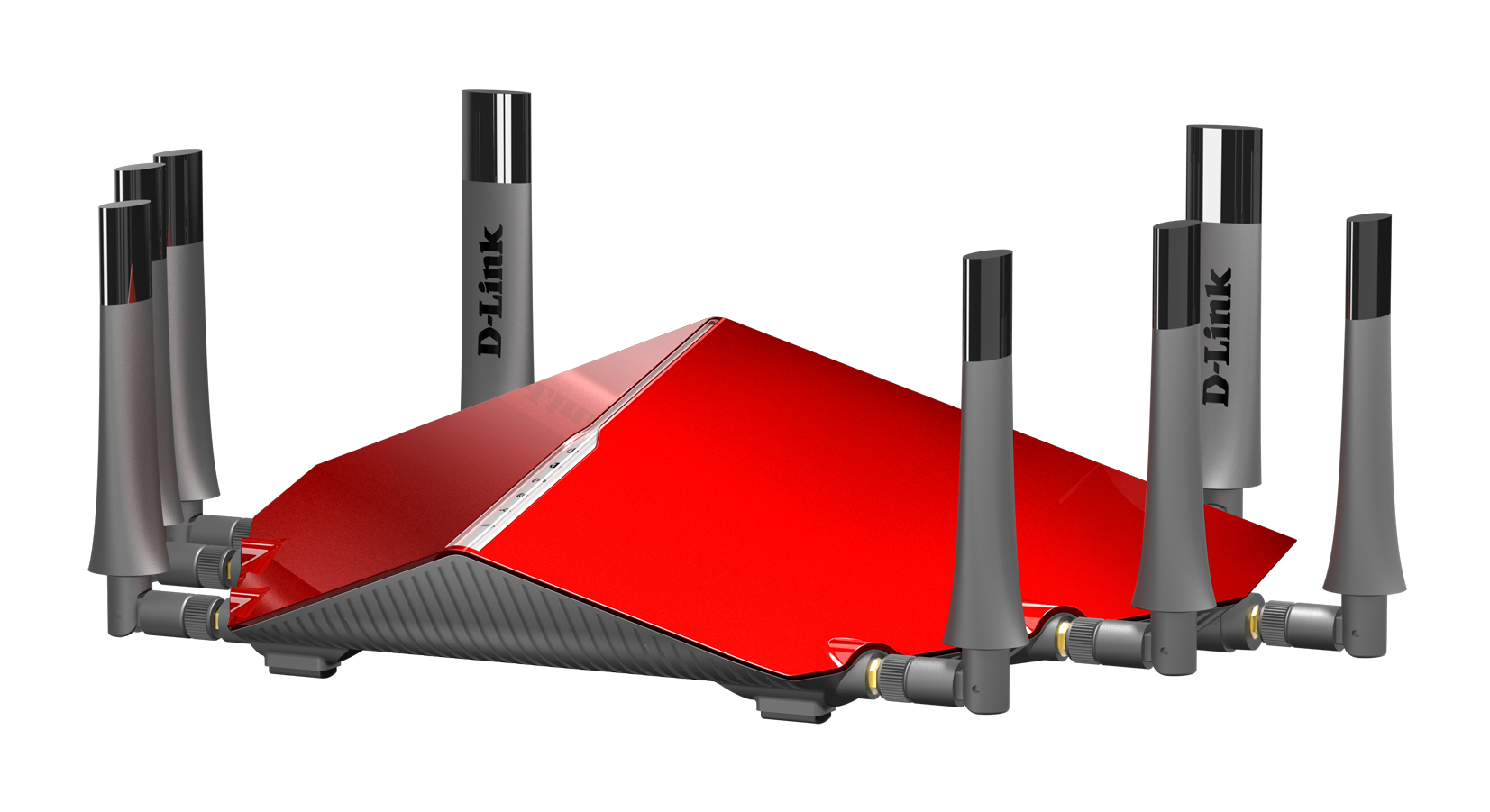 D-Linke DIR-895L